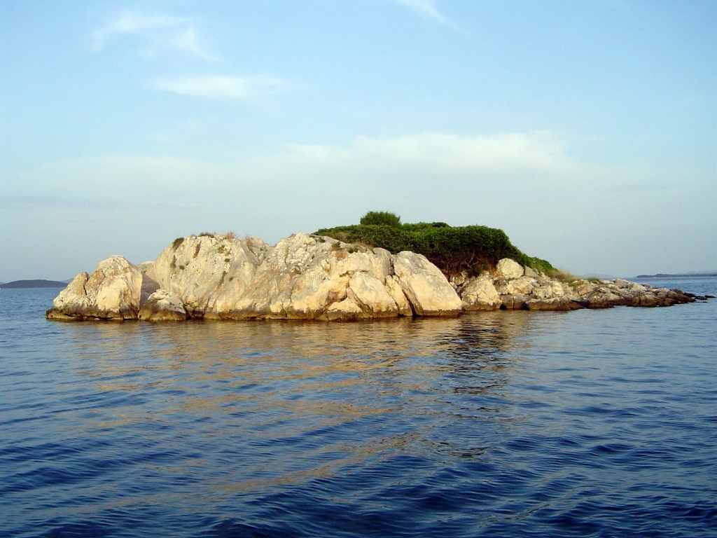 Rock Ravica near island Rava, Croatia.